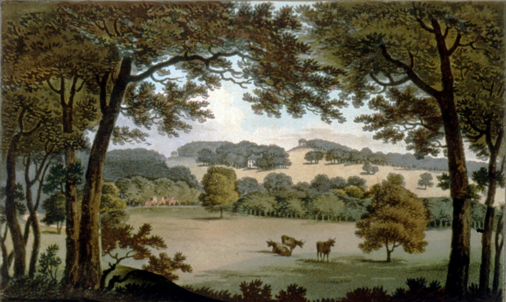 "Water at Wentworth, Yorkshire"